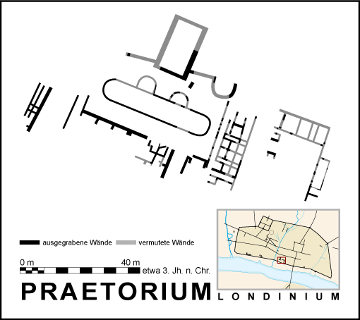 Plan of rests of thepraetorium Londinium, today London, in 3rd century AD